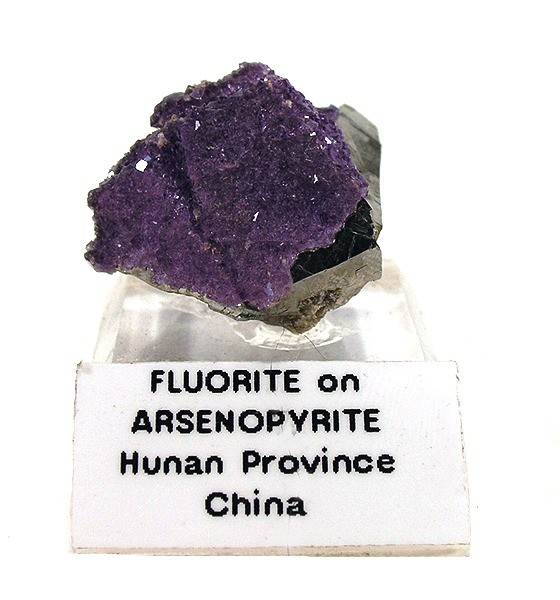 Fluorite, Arsenopyrite Locality: Yaogangxian Mine, Yizhang County, Chenzhou Prefecture, Hunan Province, China (Locality at ) Gorgeous, bright, sparkling specimen of a weird association!. 2.8 x 2.4 x 2.1 cm